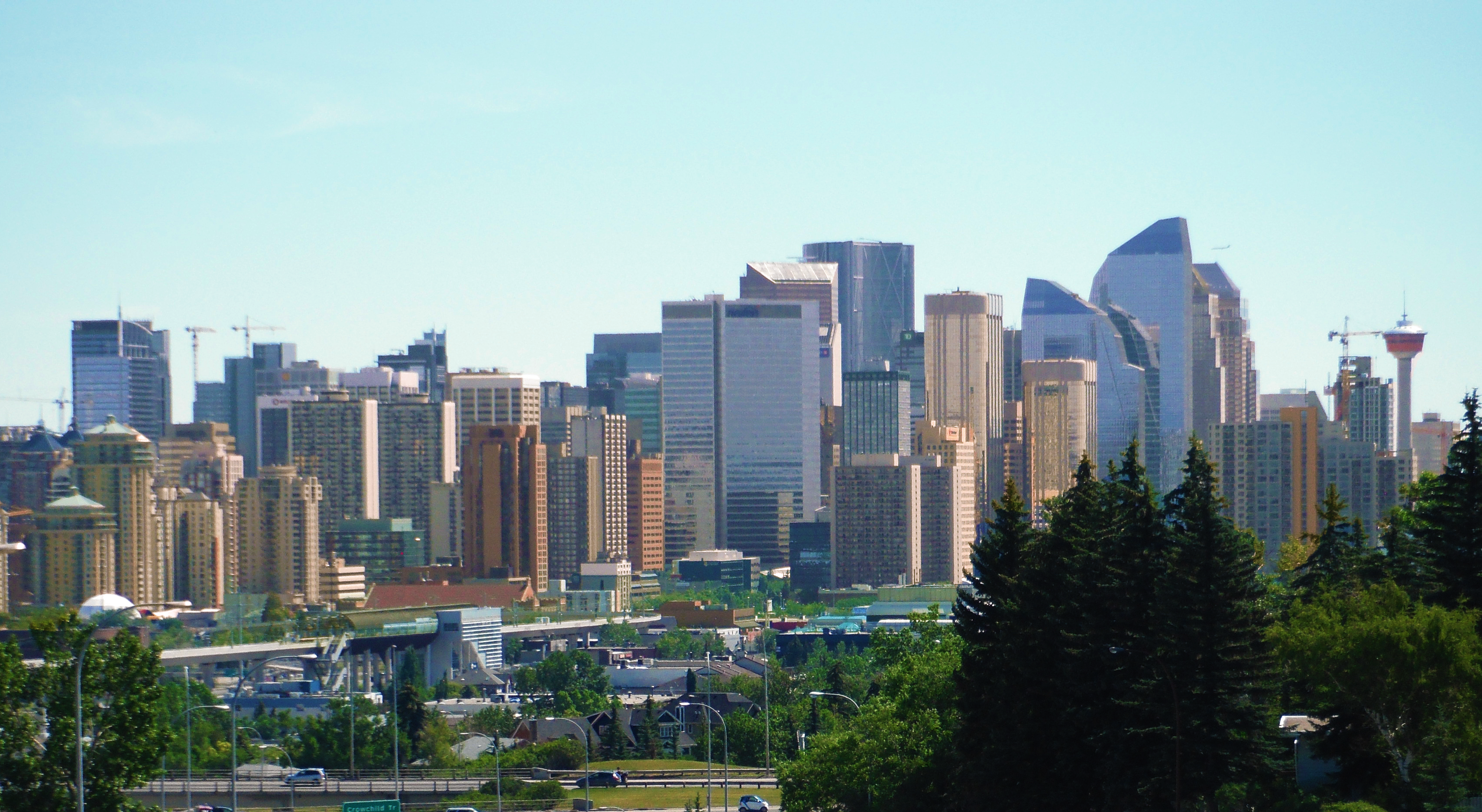 View of Calgary skyline from the west